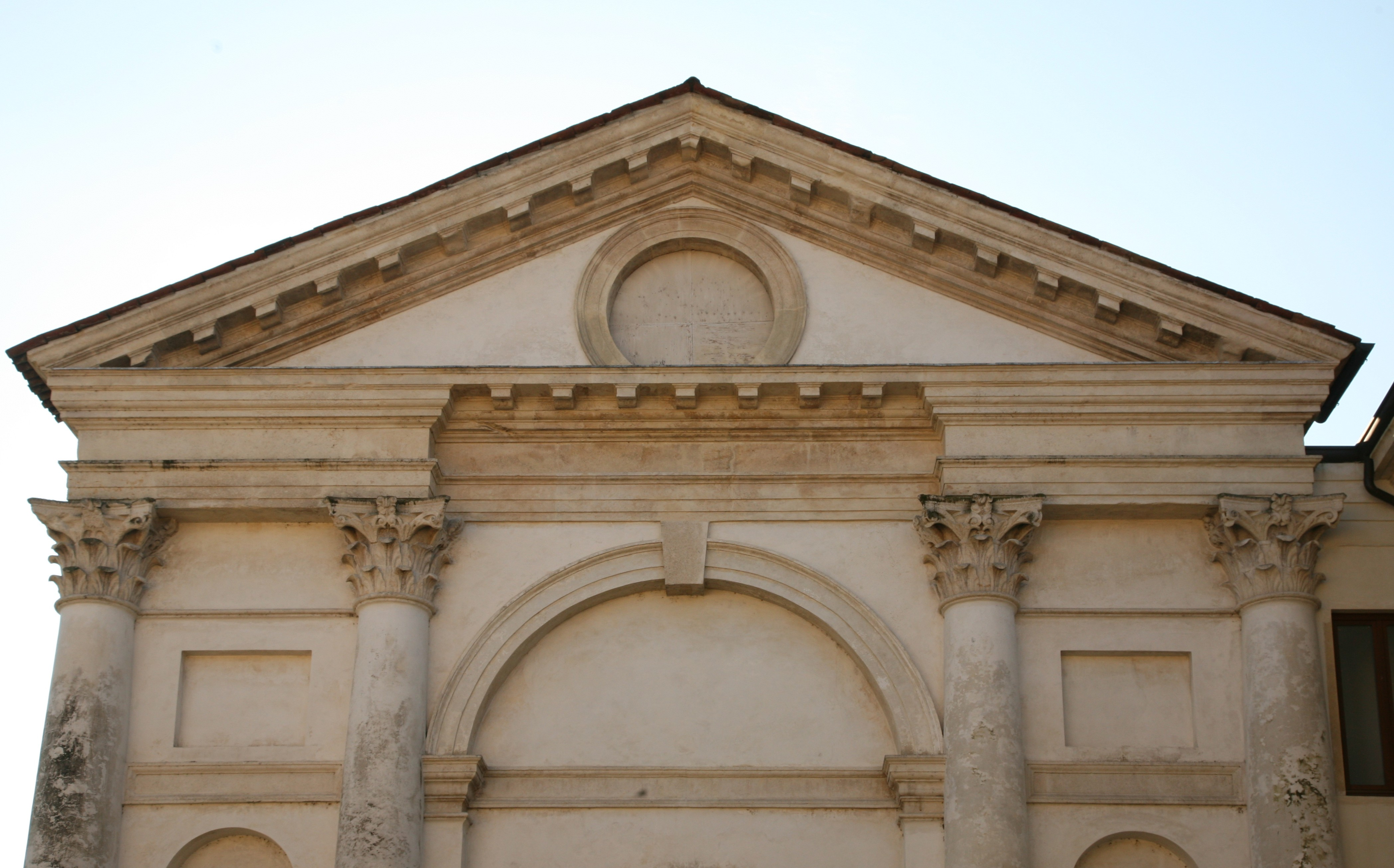 The church S Maria Nuova in Vicenza is attributed to Andrea Palladio